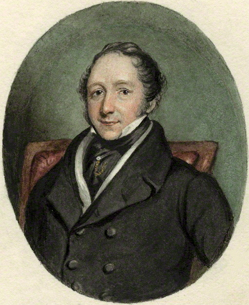 Portrait of Thomas Joseph Pettigrew (1791–1865)